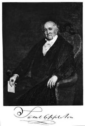 Samuel Appleton, a benefactor of the Athenaeum